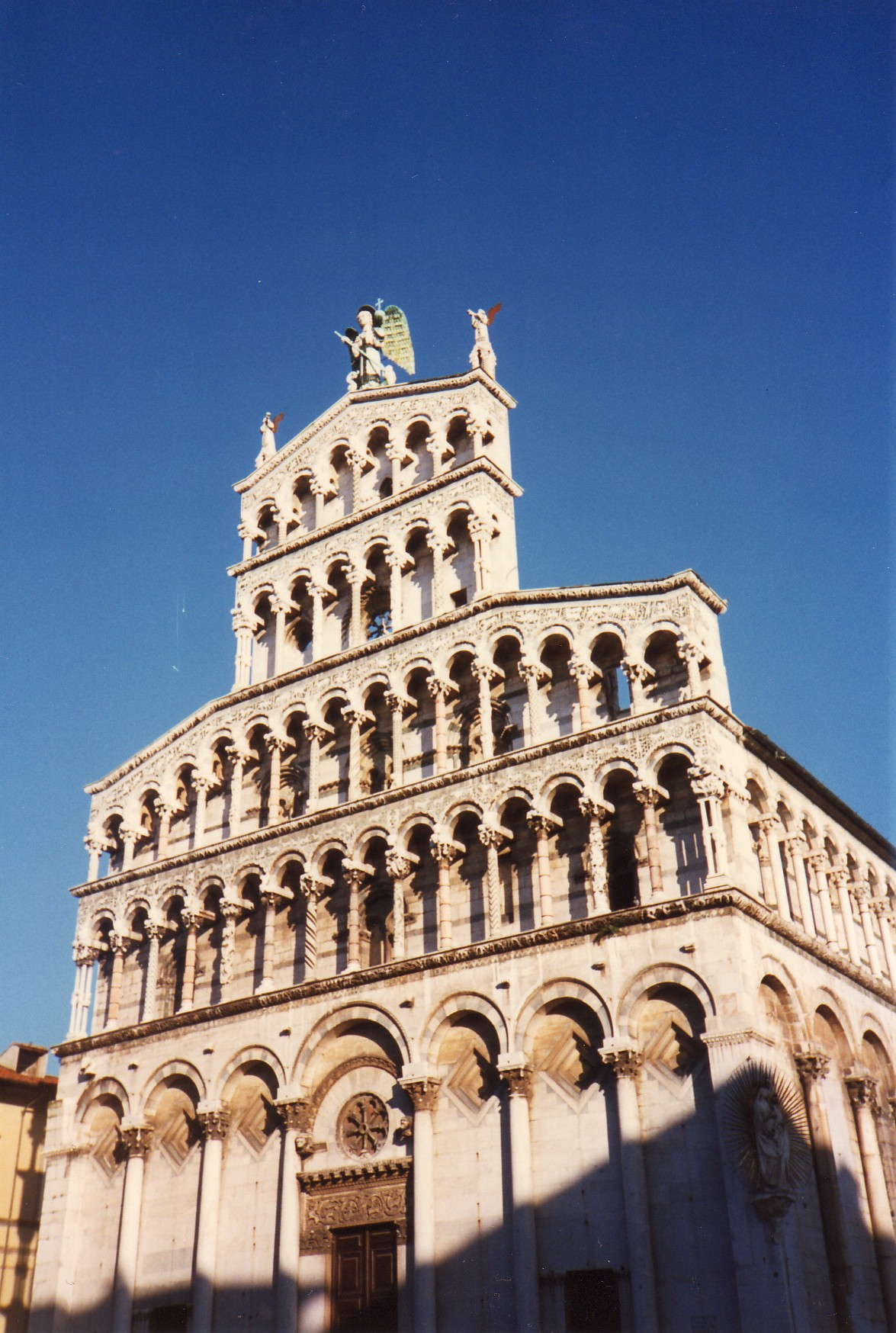 San Michele, Lucca, Italy